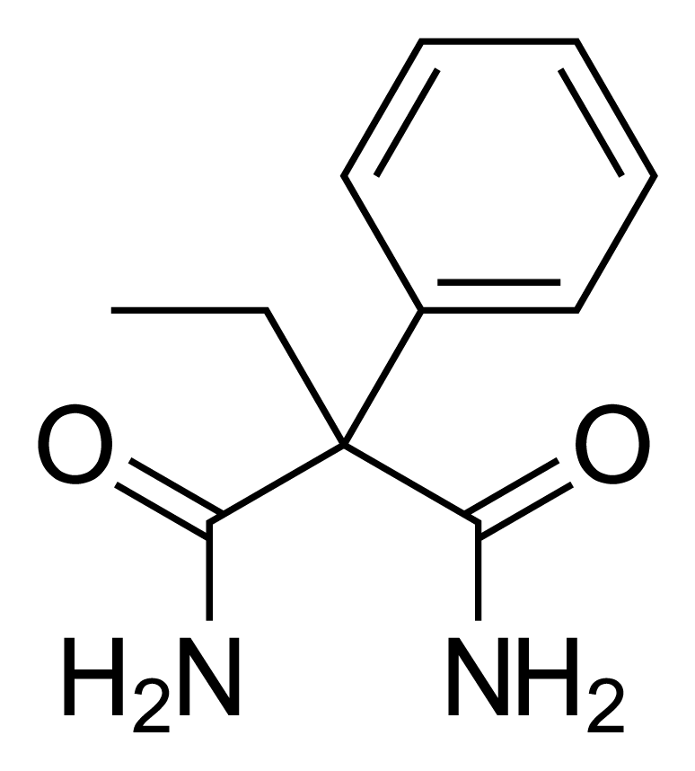 chemical structure of Phenylethylmalonamide